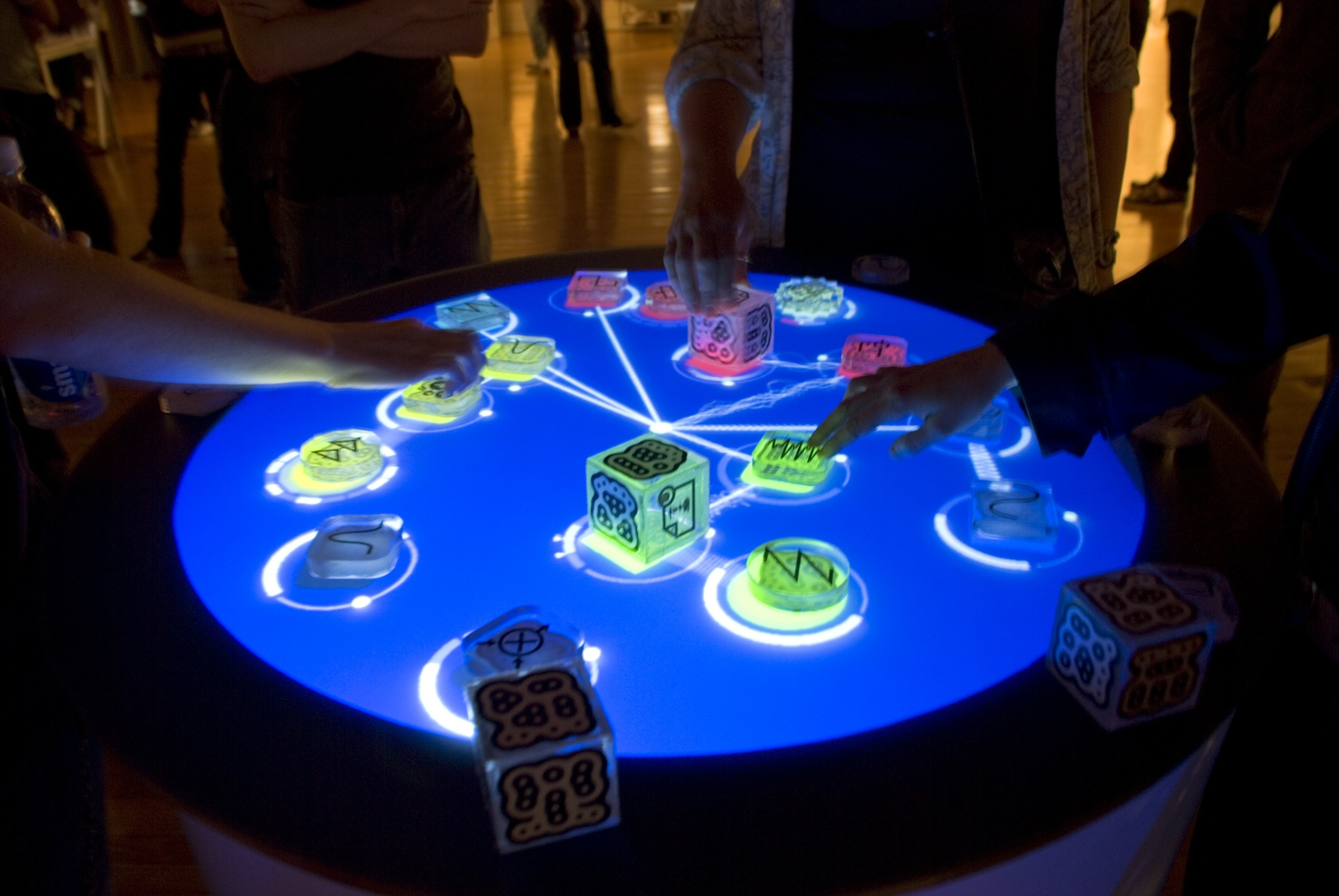 A Reactable at the Altman Center in 2007